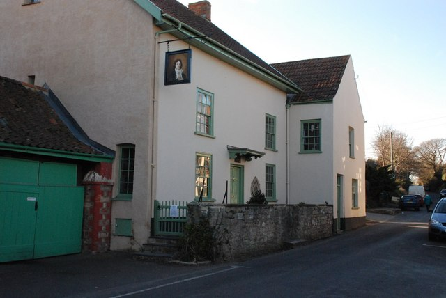 Lime Street, Nos. 35 & 37. Nether Stowey